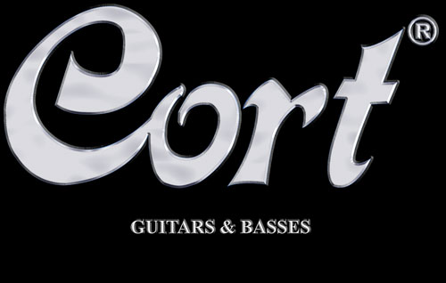 Cort Guitars logo